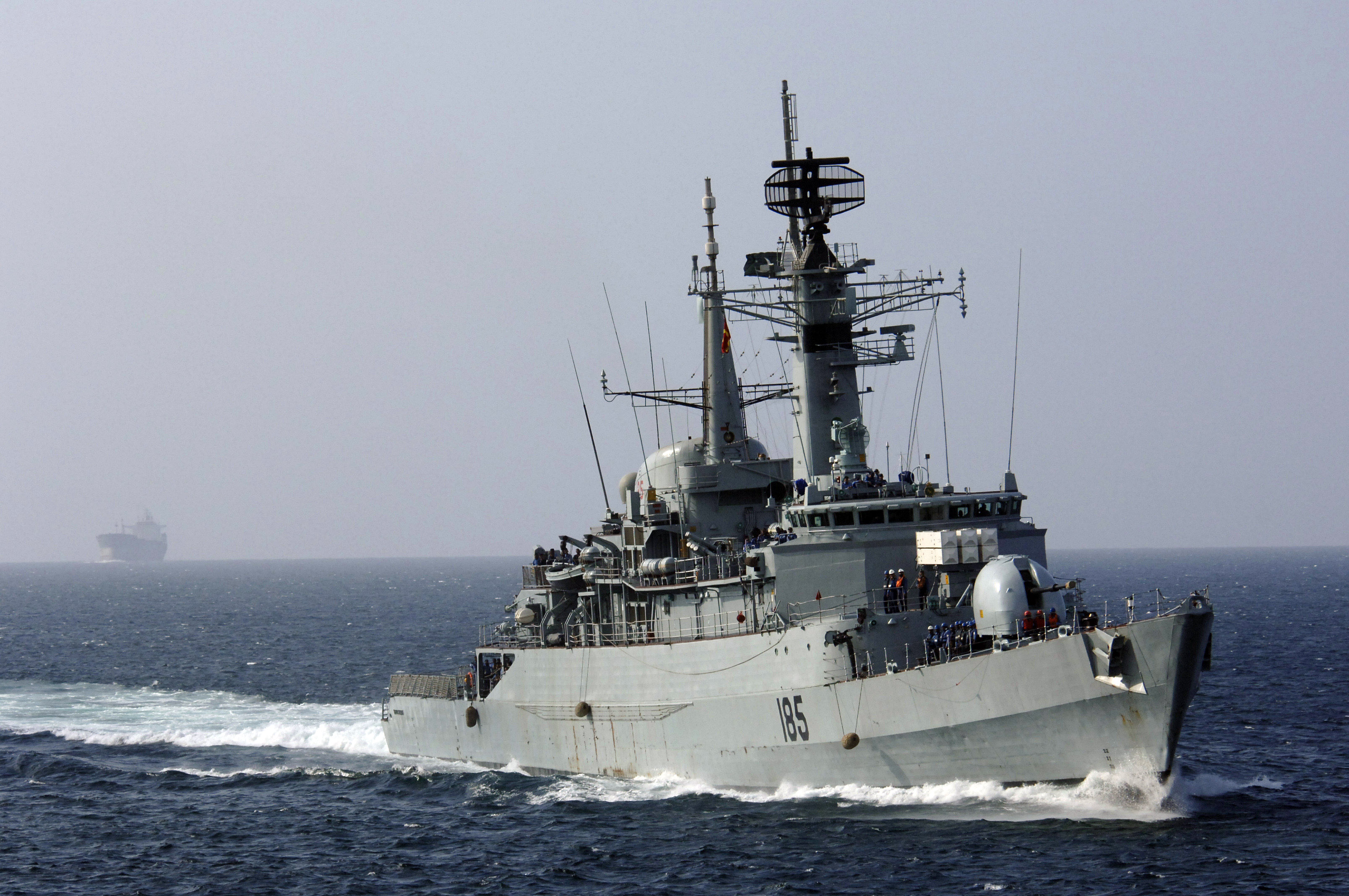 Arabian Sea (Nov. 17, 2006) - The Pakistani Naval frigate PNS Tippu Sultan (D-185) prepares to come alongside the Military Sealift Command (MSC) fast combat support ship USNS Supply (T-AOE-6) for an underway replenishment (UNREP). Supply is under way in the 5th Fleet area of responsibility to help the fleet sustain its length at sea in order to conduct maritime security operations.